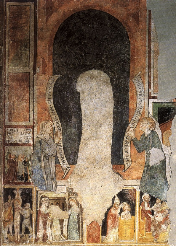 The Konrad Chrille fresco in the parish church of Bozen-Bolzano, early 14th century